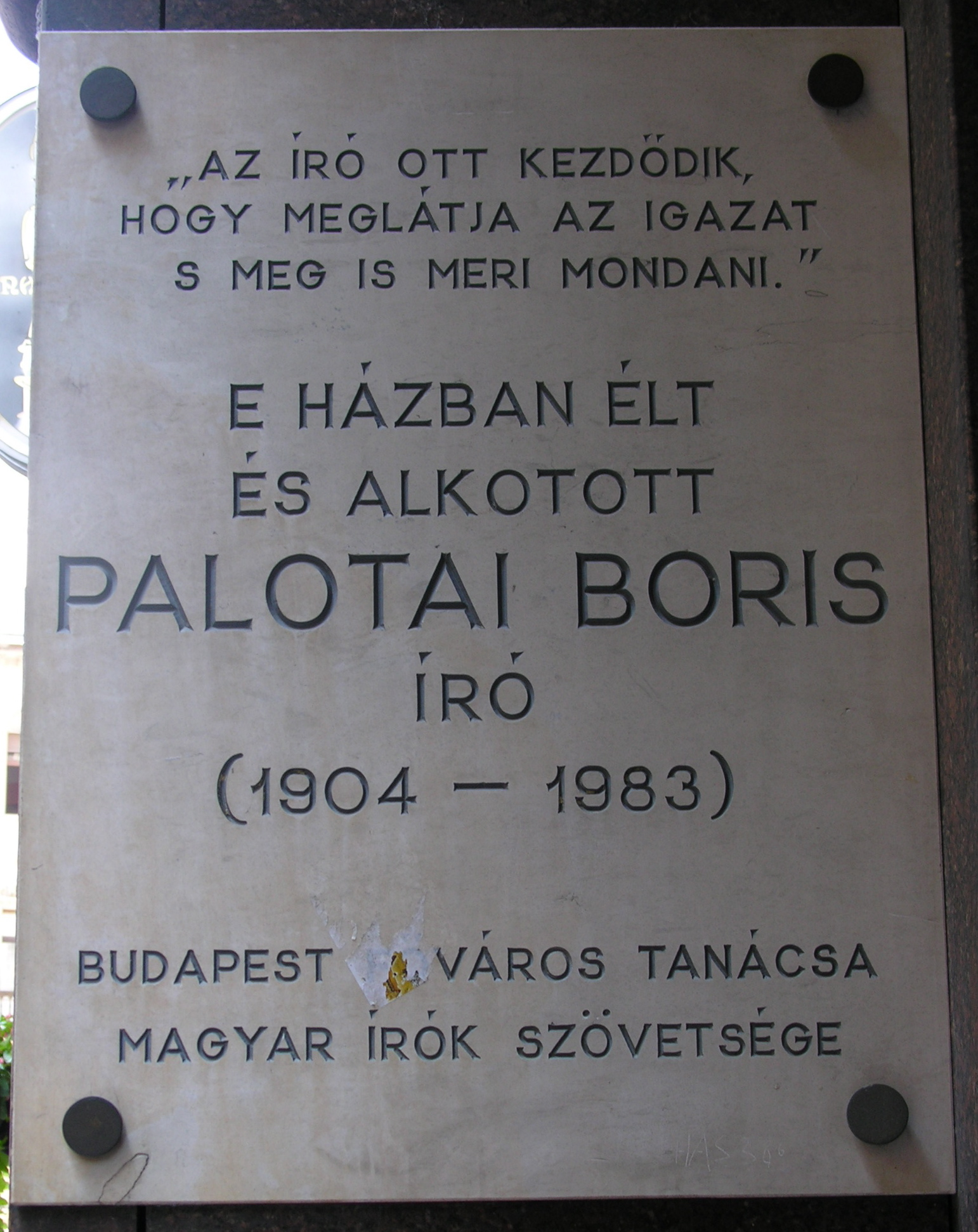 Commemorative plaque of Boris Palotai in Budapest District V, Fehér Hajó Street No 2-6